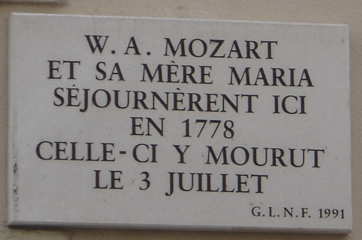 Plaque marking where Mozart's mother died